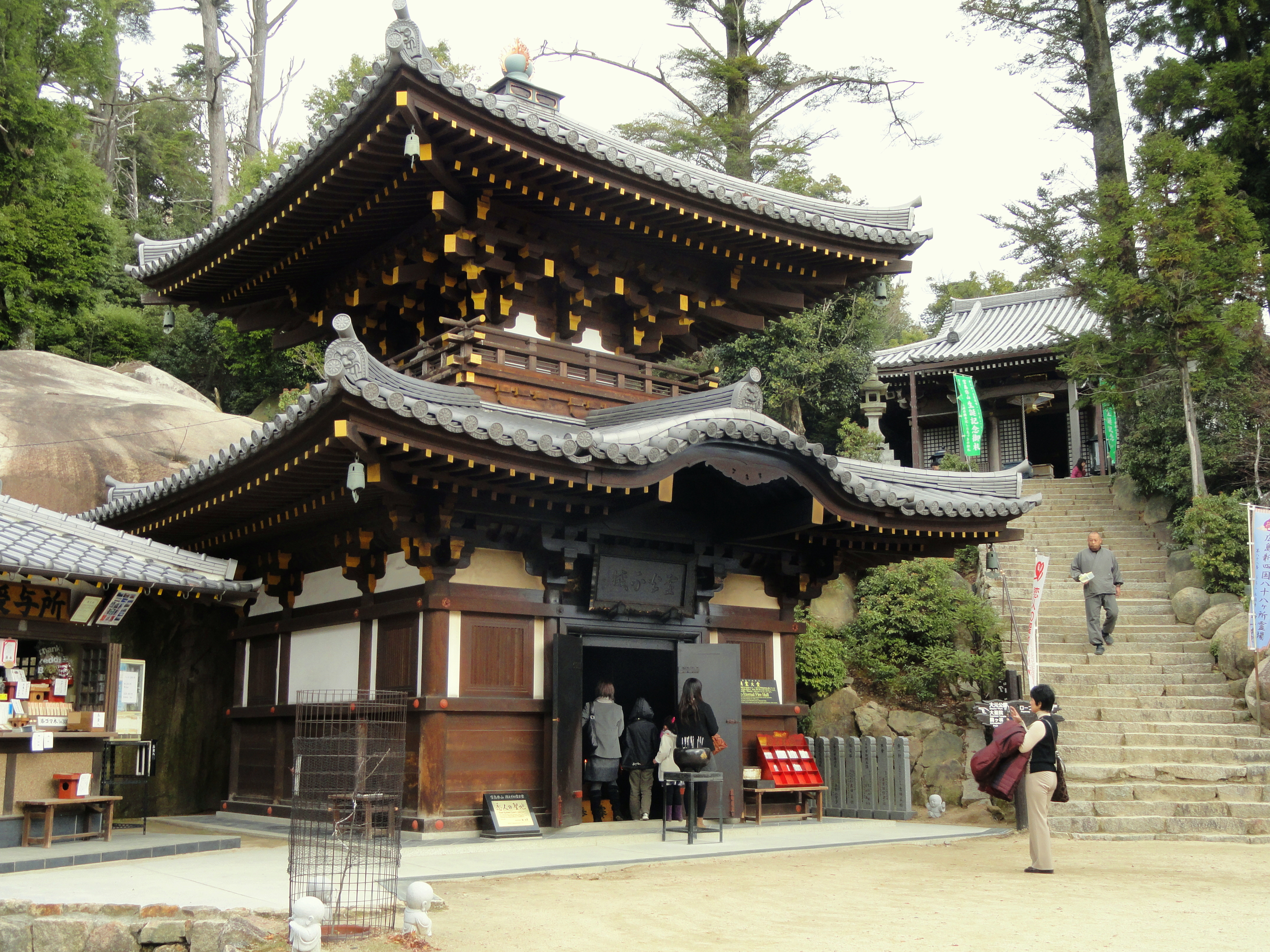 Reikado Hall, atop Mount Misen on Miyajima, Hatsukaichi, Hiroshima, Japan. Said to be spot where Kūkai (空海), known posthumously as Kōbō-Daishi (弘法大師), the founder of Shingon Buddhism, performed ascetic practices in the year 806 AD. The fire within this building is claimed to have burned without stop since that time.